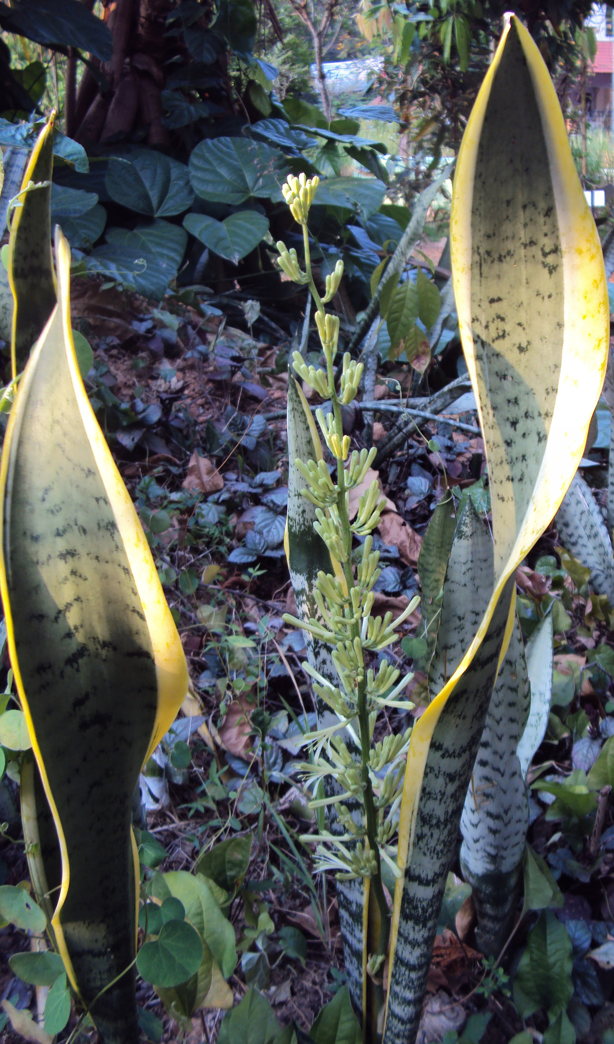 Sansevieria trifasciata